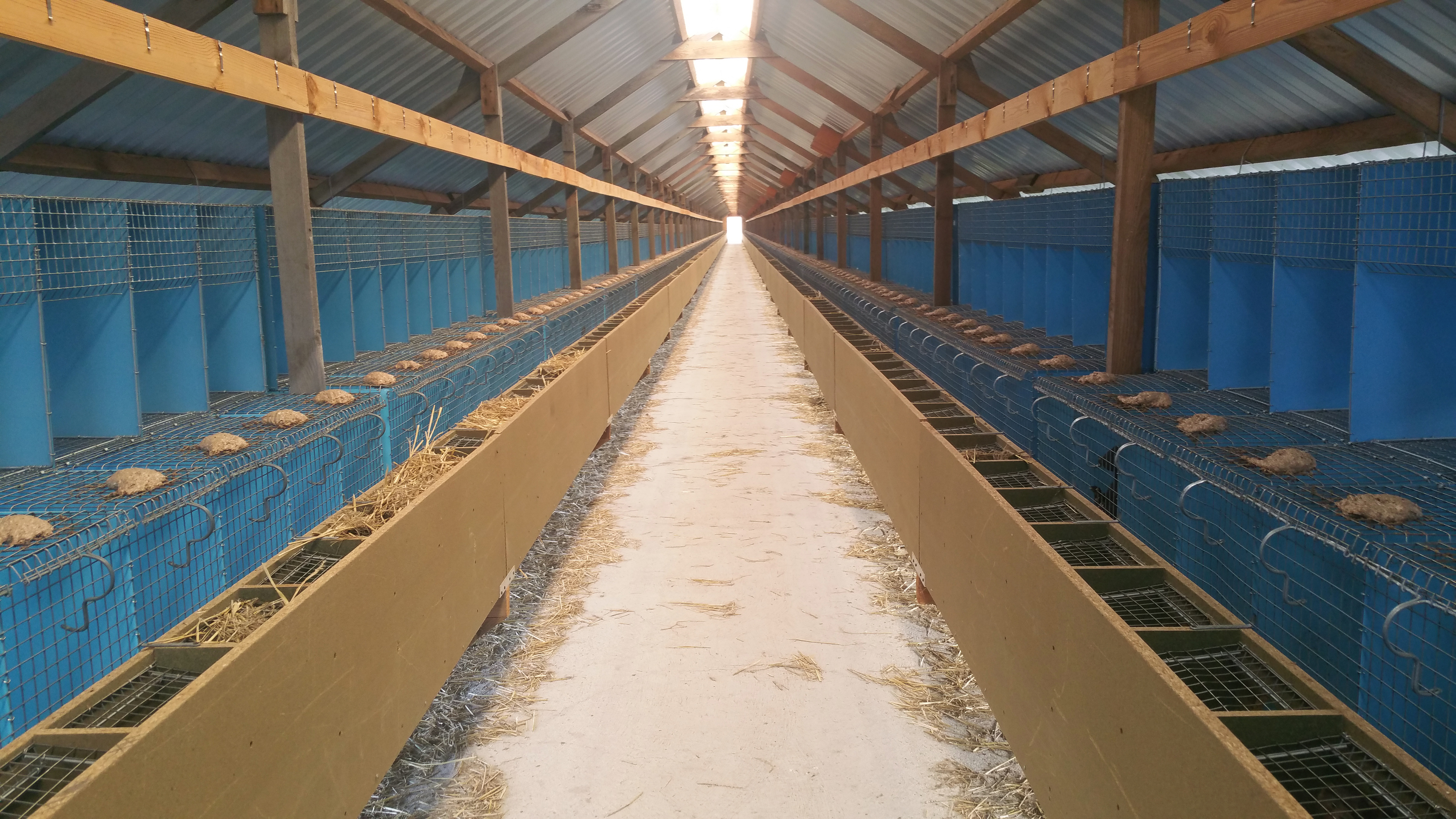 interior breeding American mink farm